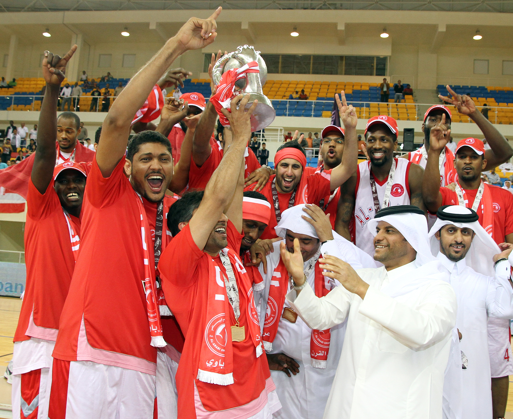 Al Arabi players celebrate their Heir Apparent's Cup triumph. Picture by Vinod Divakaran